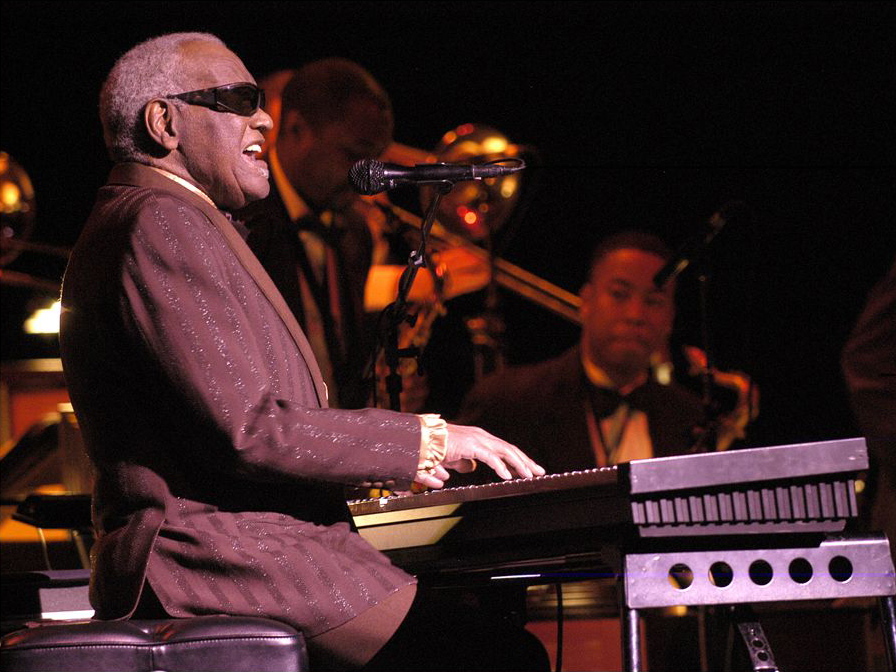 Last concert of Ray Charles, at Salle Wilfrid-Pelletier of the Place des Arts while the Festival International de Jazz de Montréal in 2003. Photo by Victor Diaz Lamich.